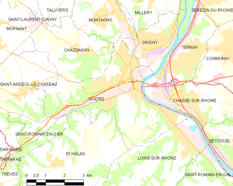 Map of French municipality